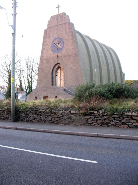 "Paddy's Boat" - the Amlwch Catholic Church, Porthllechog Road